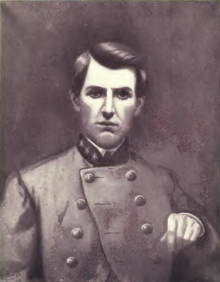 Portrait of Colonel Stapleton Crutchfield, officer of the Confederate Army